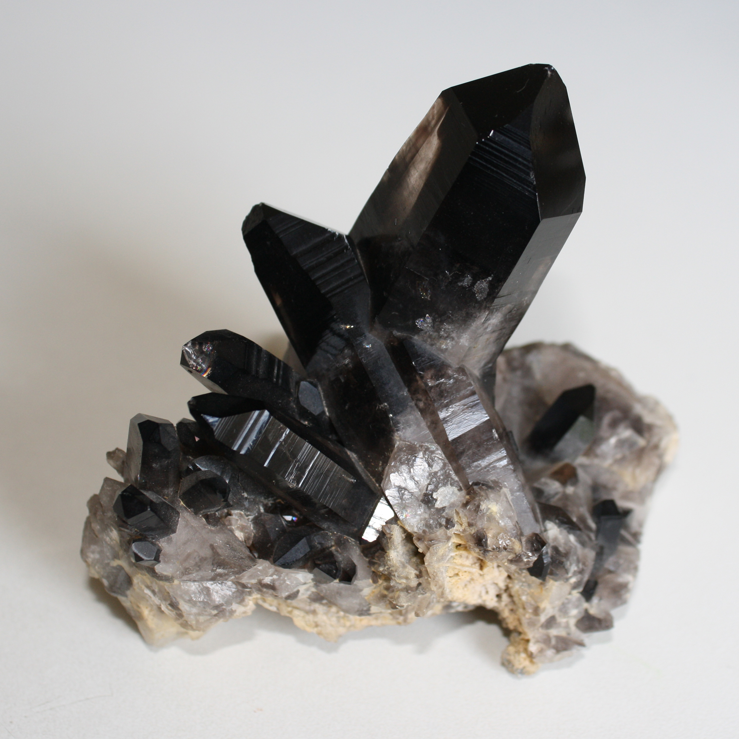 Morion, a variety of smoky quartz